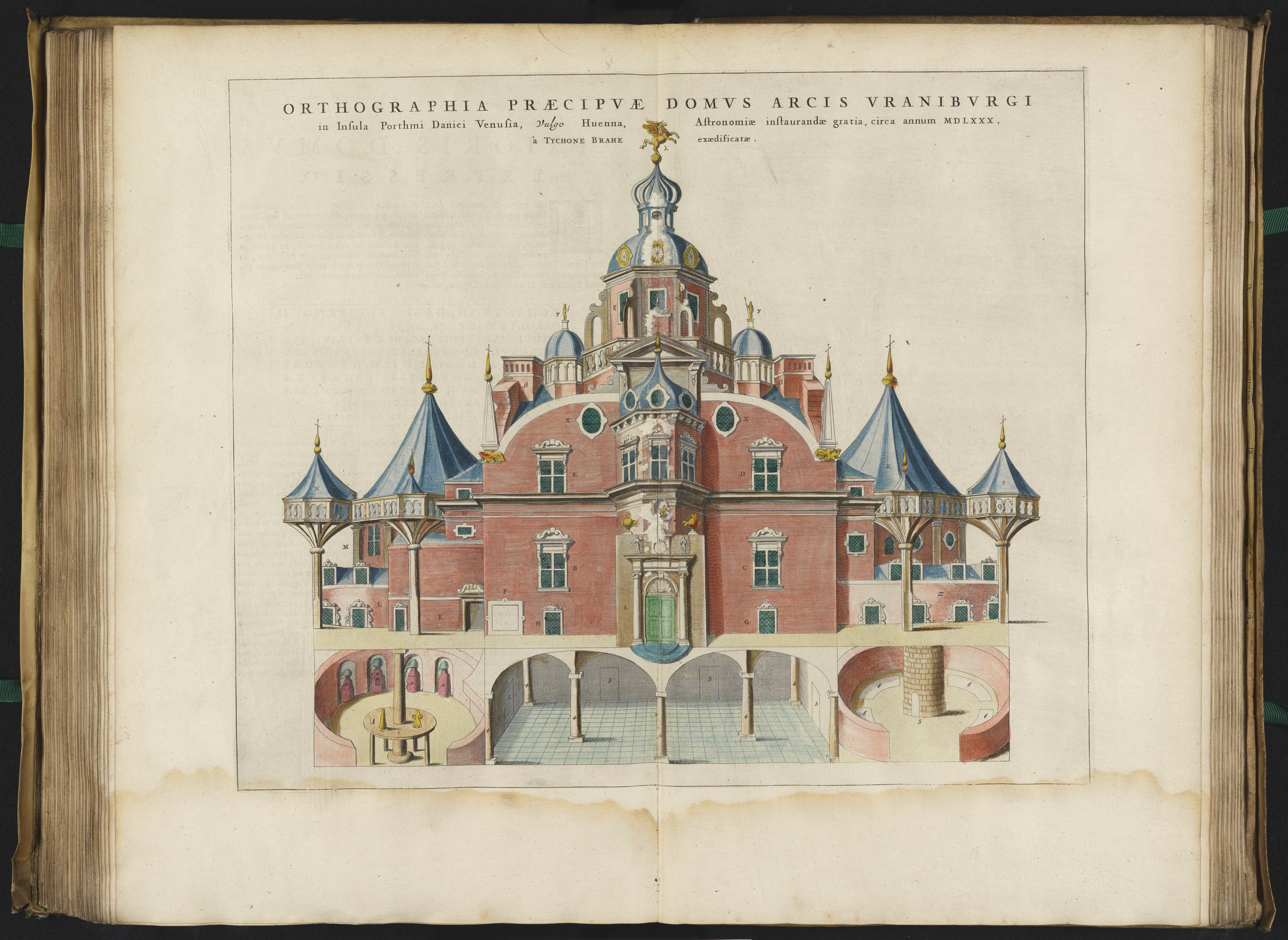 Hand-colored copper-plate engraving of the main building of Tycho Brahe's Uraniborg palace-observatory (built ca 1576-1580) from Joan Blaeu's Atlas Maior (1663), based on a woodcut from Brahe's Astronomiæ instauratæ mechanica (1598)